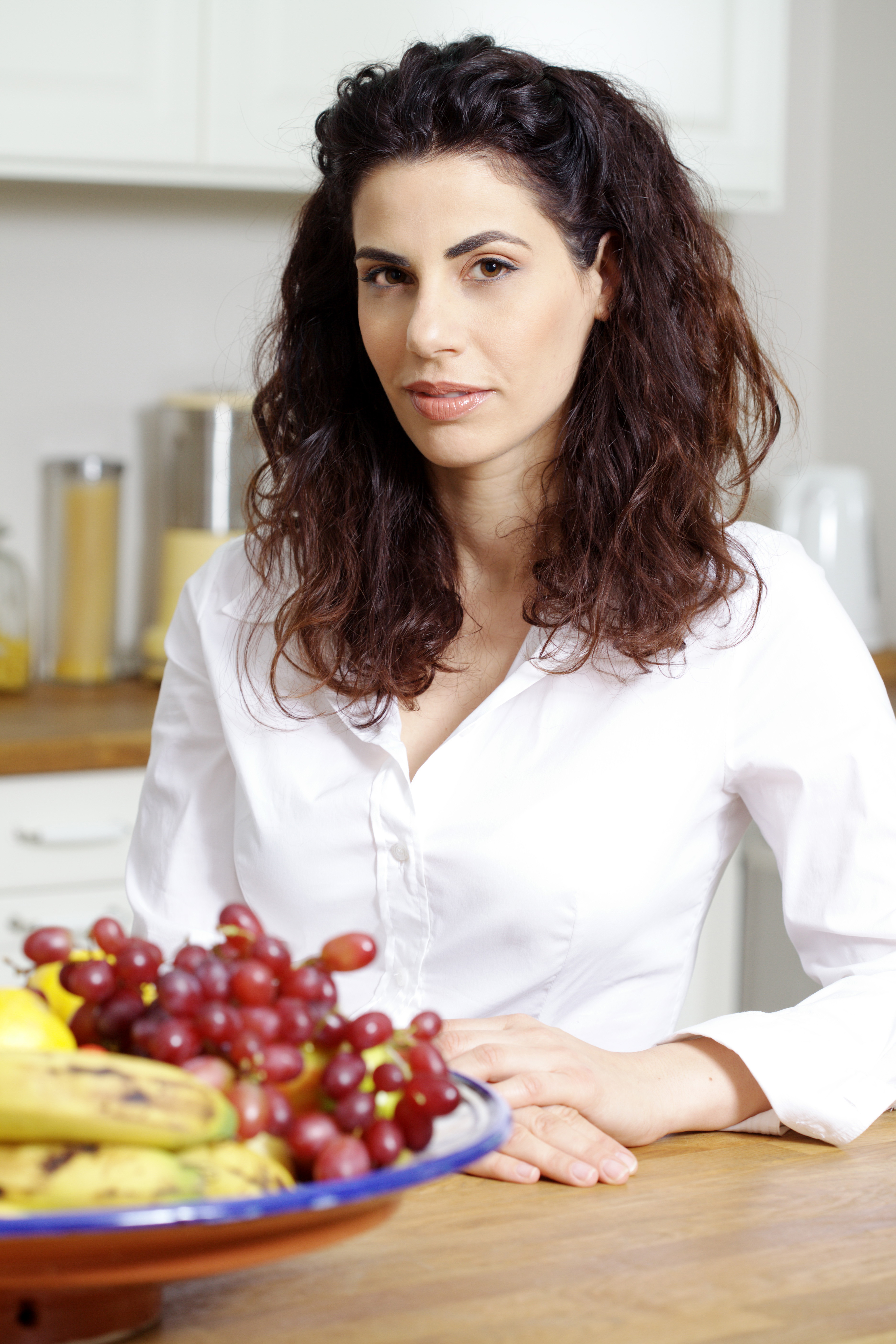 Shai Lee Lipa